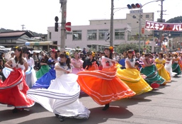 Parade at the Cosquín en Japón in Kawamata Town, Fukushima Prefecture, Japan